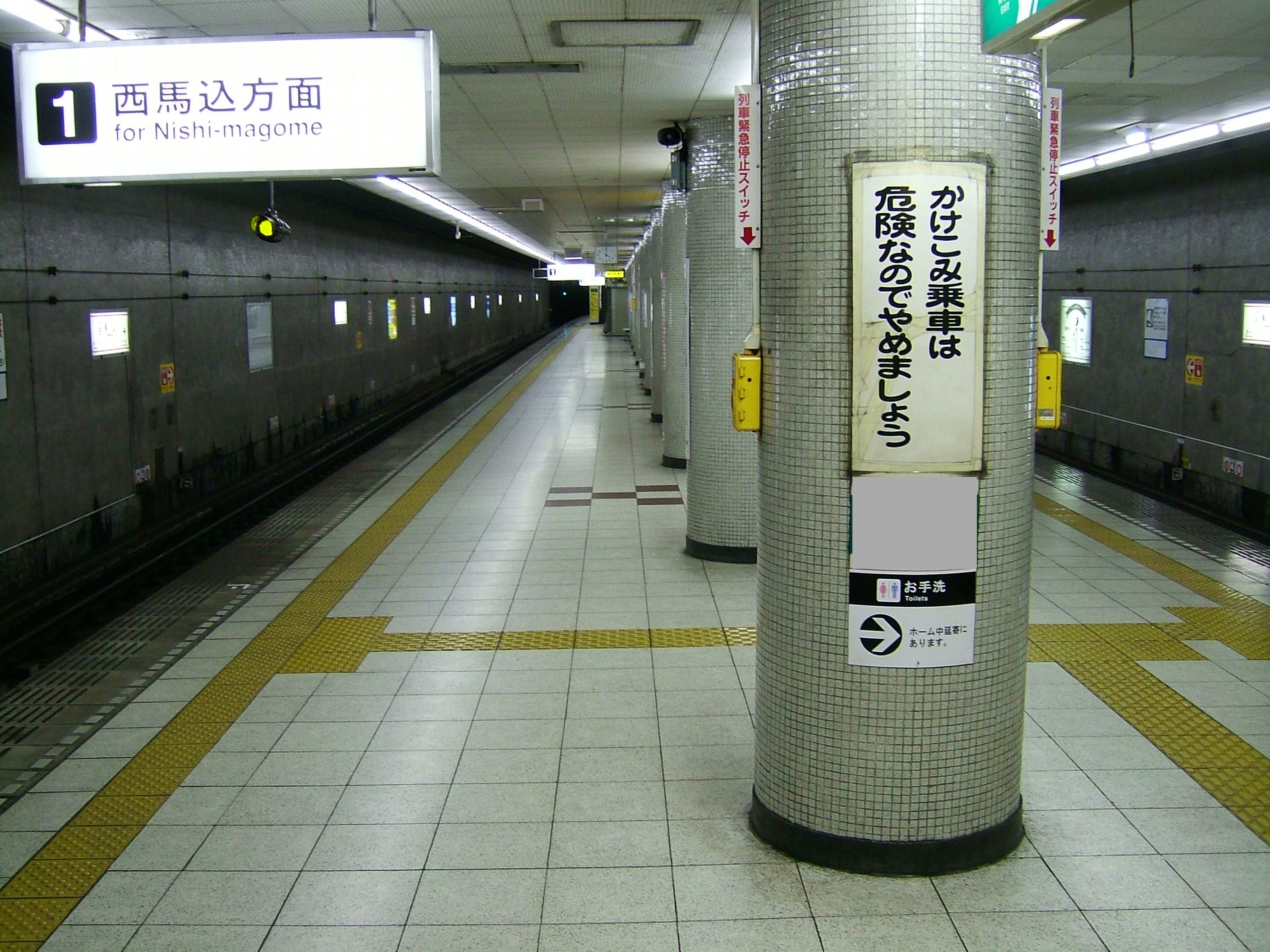 The platform at Magome Station on the Toei Asakusa Line in Ōta city, Tokyo, Japan